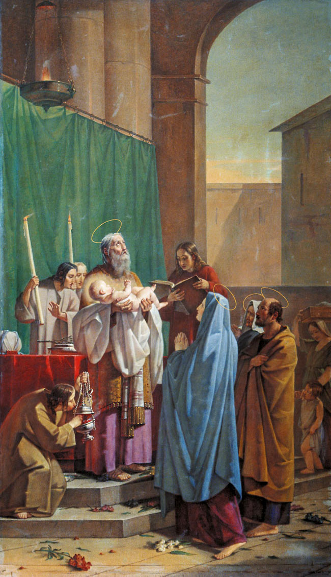 Simeon the Righteous, 1847